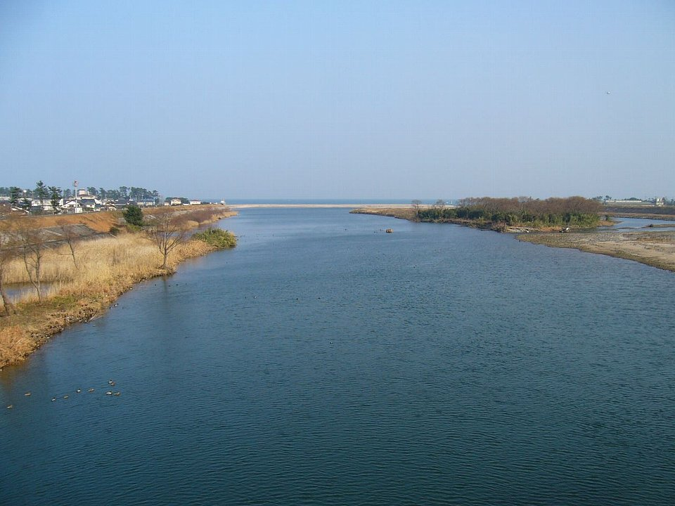 Hino River near Yonago, Tottori Prefecture, Japan.